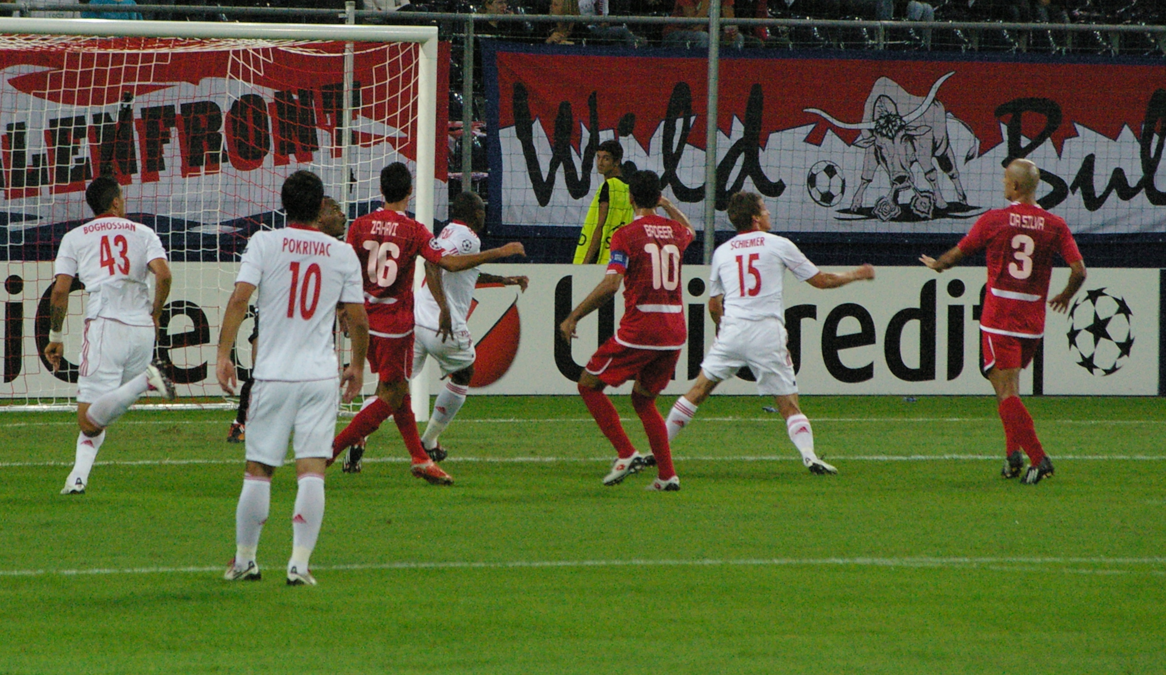 qualifing match Champions League